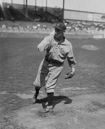 Stan Coveleski, Cleveland AL (baseball)